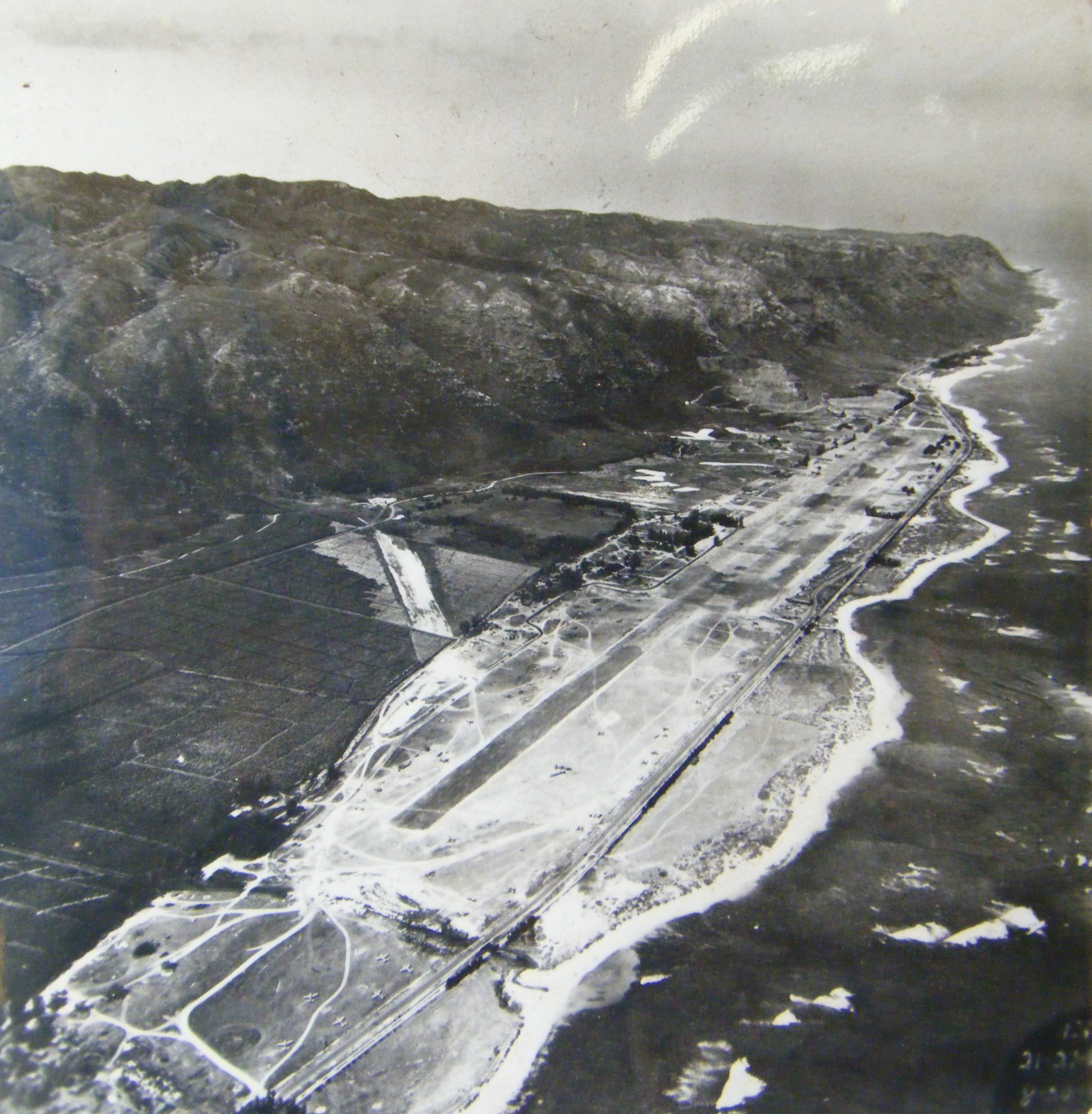 Dillingham Airfield aerial photo - Taken soon after construction during World War II